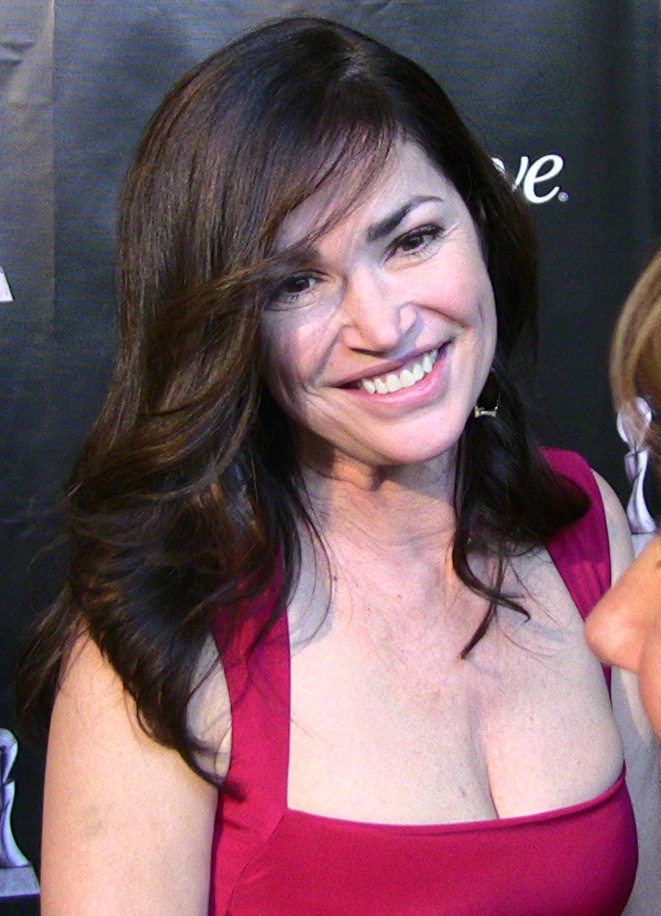 Kim Delaney at the 36th Annual Gracie Awards Gala IMG_0710